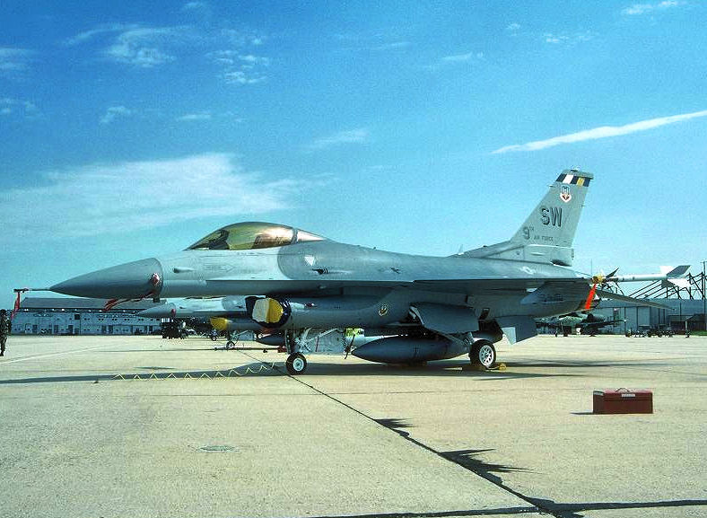 19th Fighter Squadron - General Dynamics F-16C Block 42F Fighting Falcon 89-2098